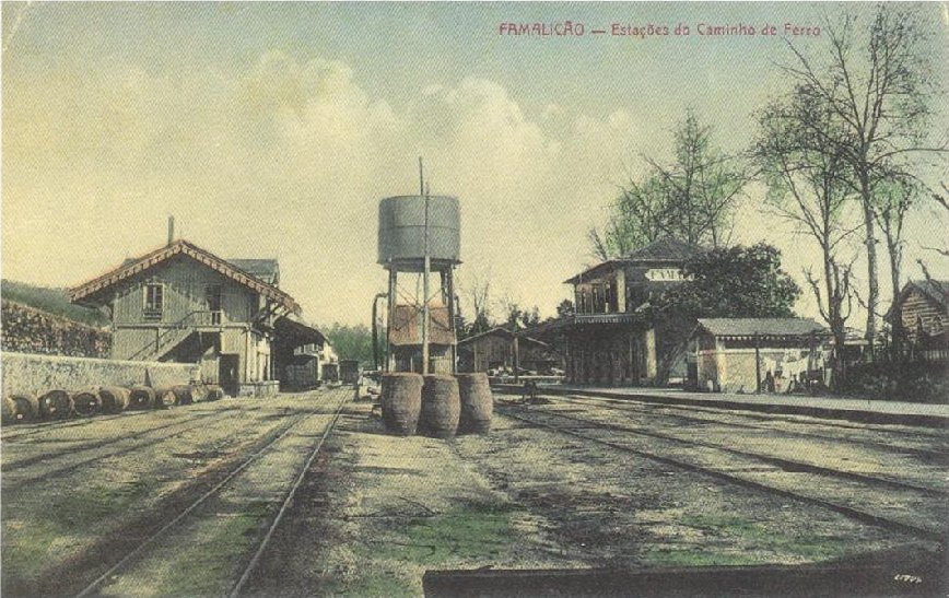 Old photo of the Famalicão Train Station, in the Minho Line, in Portugal.